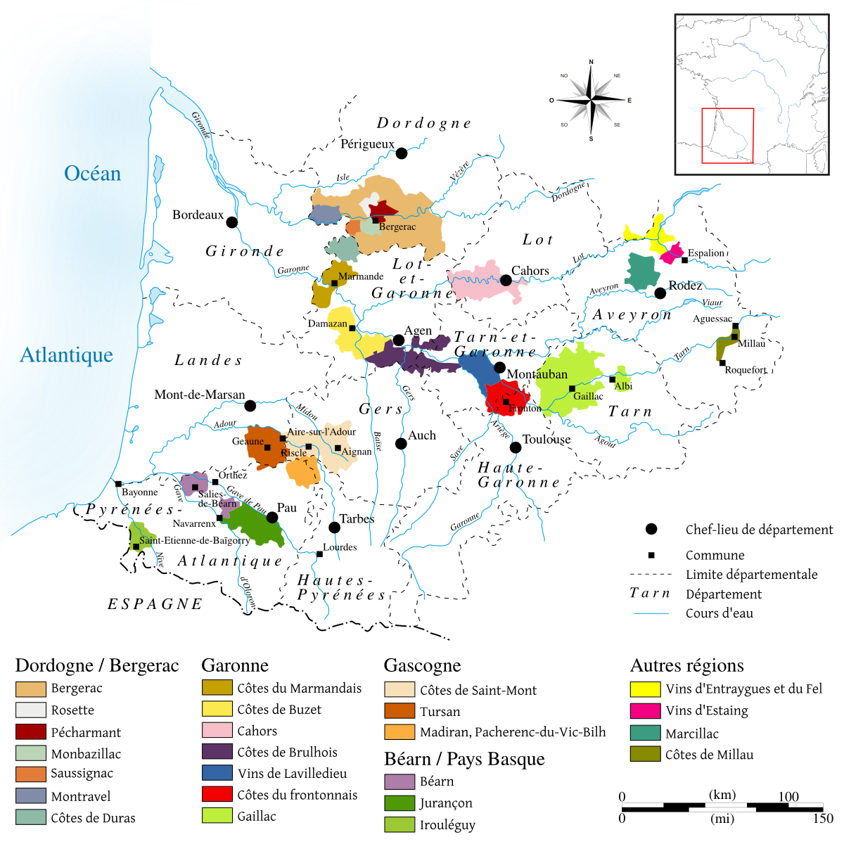 Wine-growing areas of South West France (Sud-Ouest)